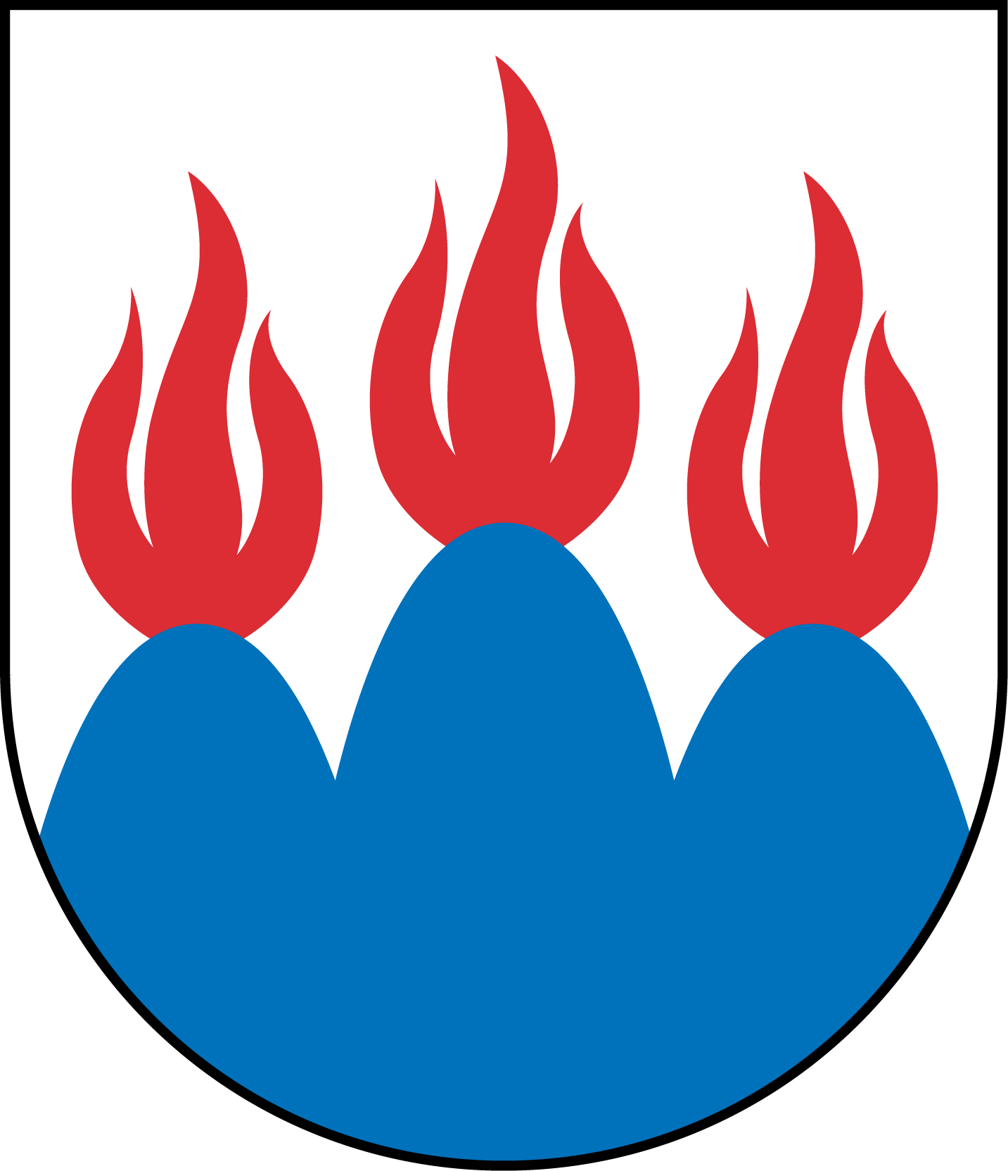 Coat of arms of the province of Västmanland, Sweden. Painted by Vladimir A. Sagerlund when he was the heraldic artist at the National Archives of Sweden (Riksarkivet). This representation of a coat of arms is potentially different from the one used by the armiger (municipality or organisation) in question. = ⇑“Sable, a lionrampant or” This coat of arms was drawn based on its blazon which – being a written description – is free from copyright. Any illustration conforming with the blazon of the arms is considered to be heraldically correct. Thus several different artistic interpretations of the same coat of arms can exist. The design officially used by the armiger is likely protected by copyright, in which case it cannot be used here.Individual representations of a coat of arms, drawn from a blazon, may have a copyright belonging to the artist, but are not necessarily derivative works. Further information: Commons:Coats of arms and Template:Coa blazon